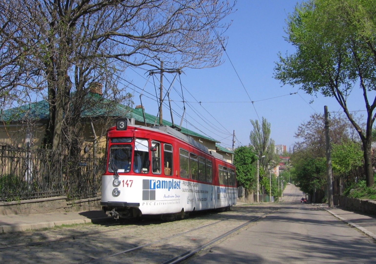 Iași tram 147 climbing Strada Pădurii just east of Strada Elena Doamna, westbound on route 3. Car 147 is a 1964-built GT4 acquired from the Halle tram system in 2003, where it had last been number 890, and previously (1990–92) 852. Halle had acquired it secondhand in 1990 from Freiburg, where it was number 152.